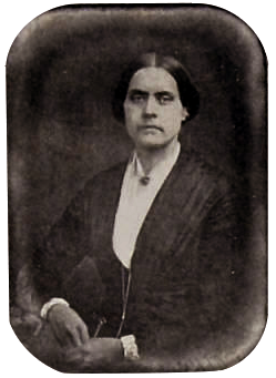 Susan B Anthony, age 36